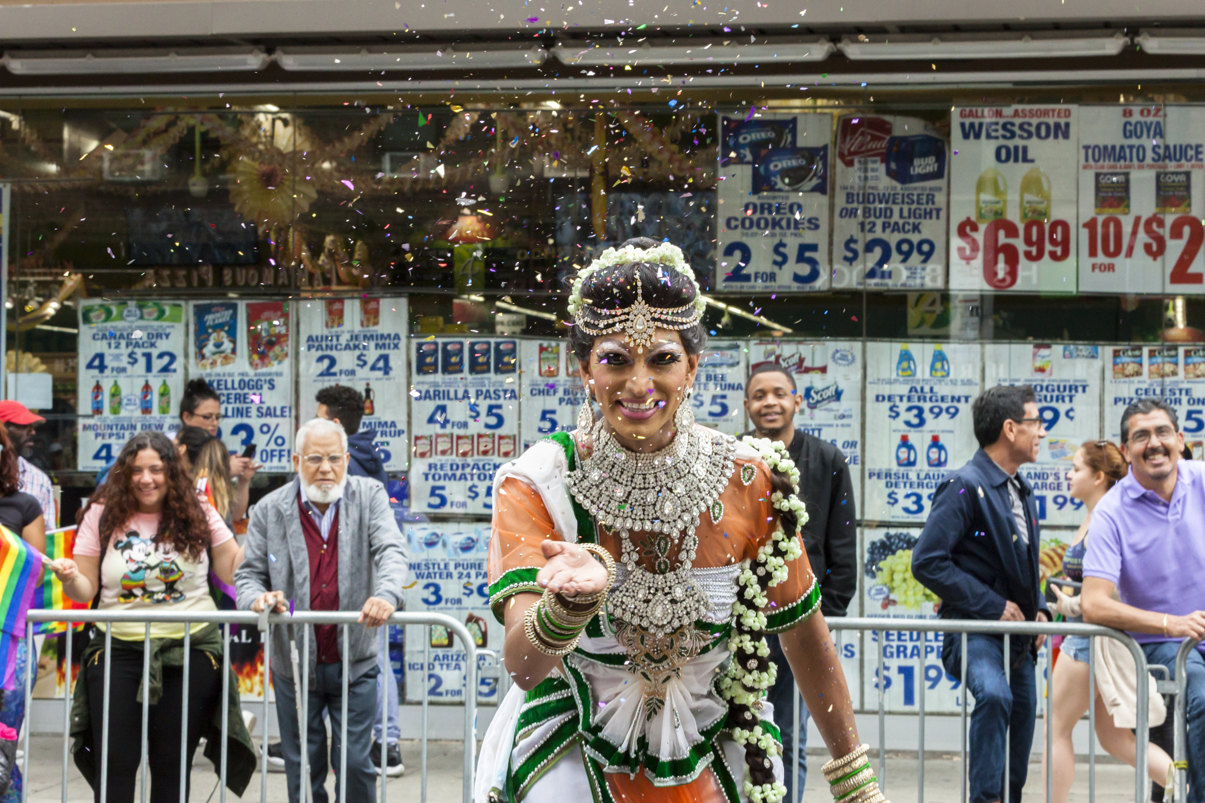 Photos taken for the La Guardia and Wagner Archives at the Queens Pride Parade in Queens on Sunday, June 3, 2018.